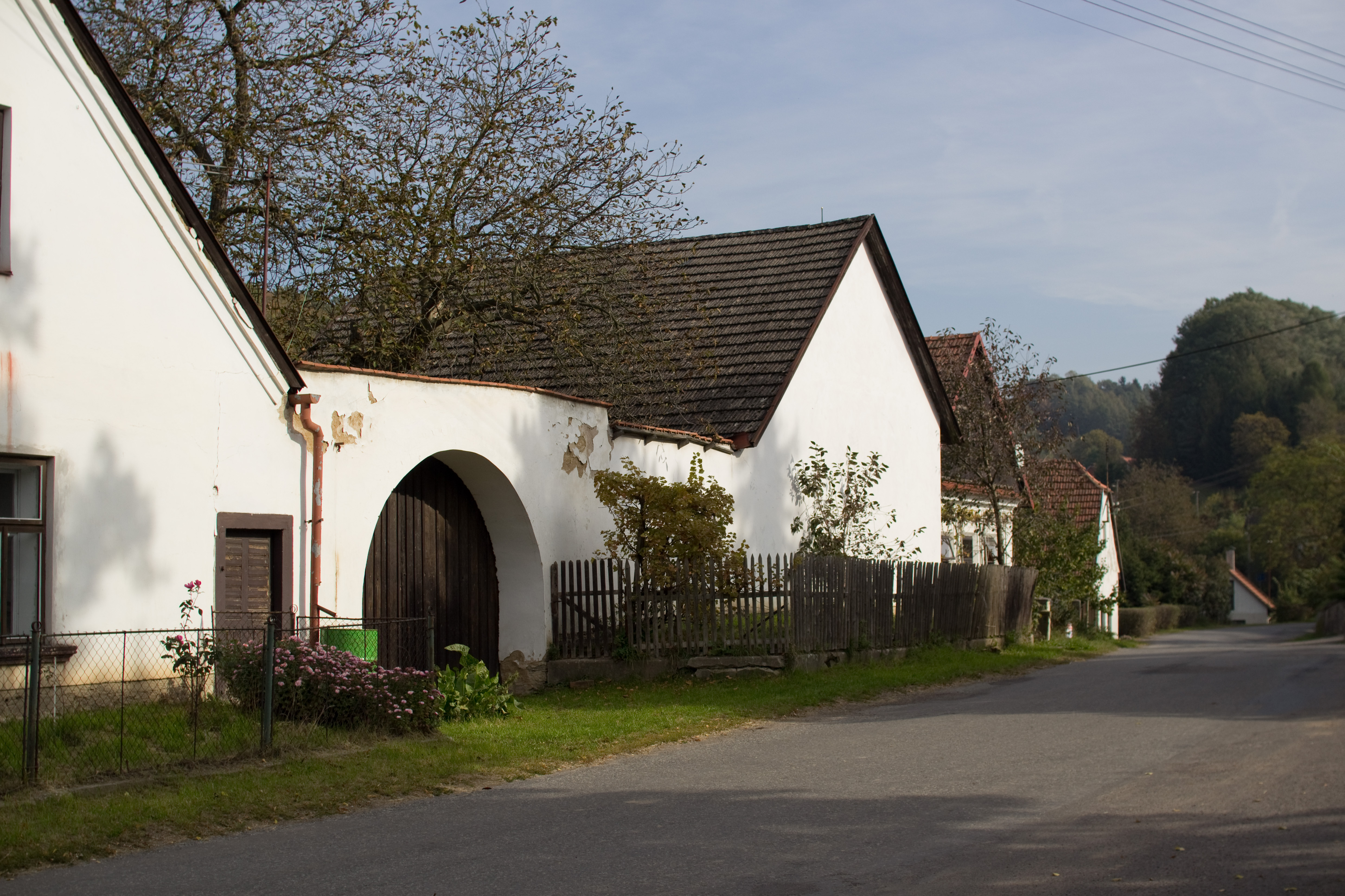 House, Chleny, Rychnov nad Kněžnou District, Hradec Králové Region